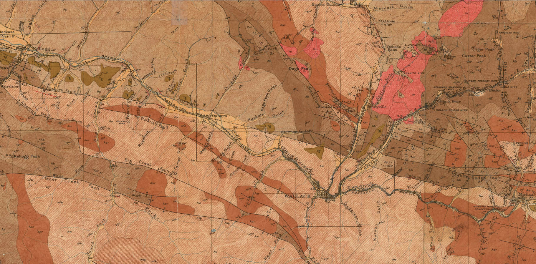 1907 Silver Valley Idaho geologic map, where m is monzonite and syenite, Ap is Prichard Slate, Ab is Burke Formation, Ar is Revett Quartzite, Asr is St. Regis Formation, Aw is Wallace Formation, Asp is Striped Peak Formation, Tg are Tertiary terrace gravels, Qgl is Quaternary glacial deposits, Qal is Quaternary alluvium, x is a prospect pit and y is a tunnel